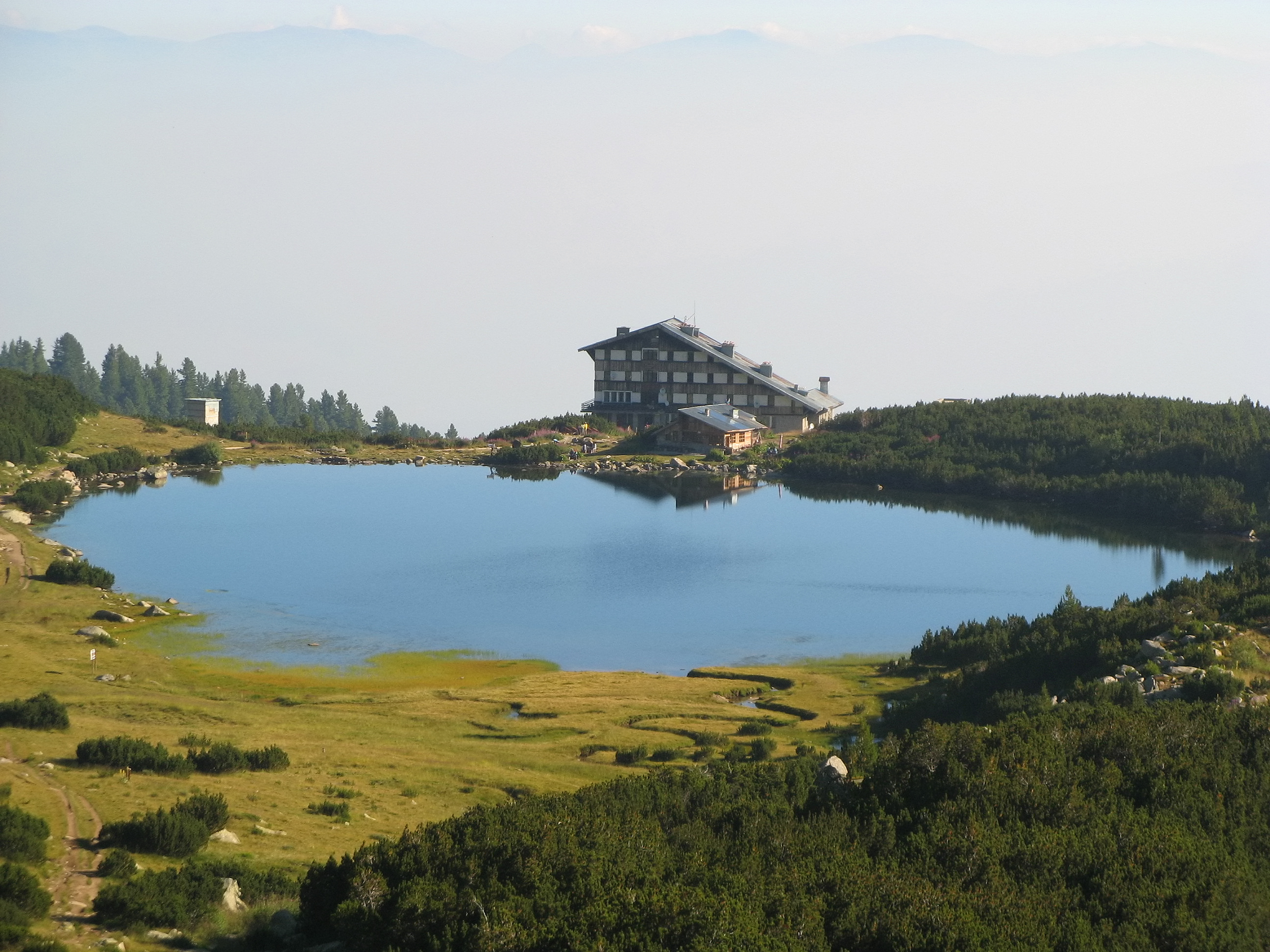 Bezbog hut (chalet) and Bezbog Lake in Pirin mountain in Bulgaria